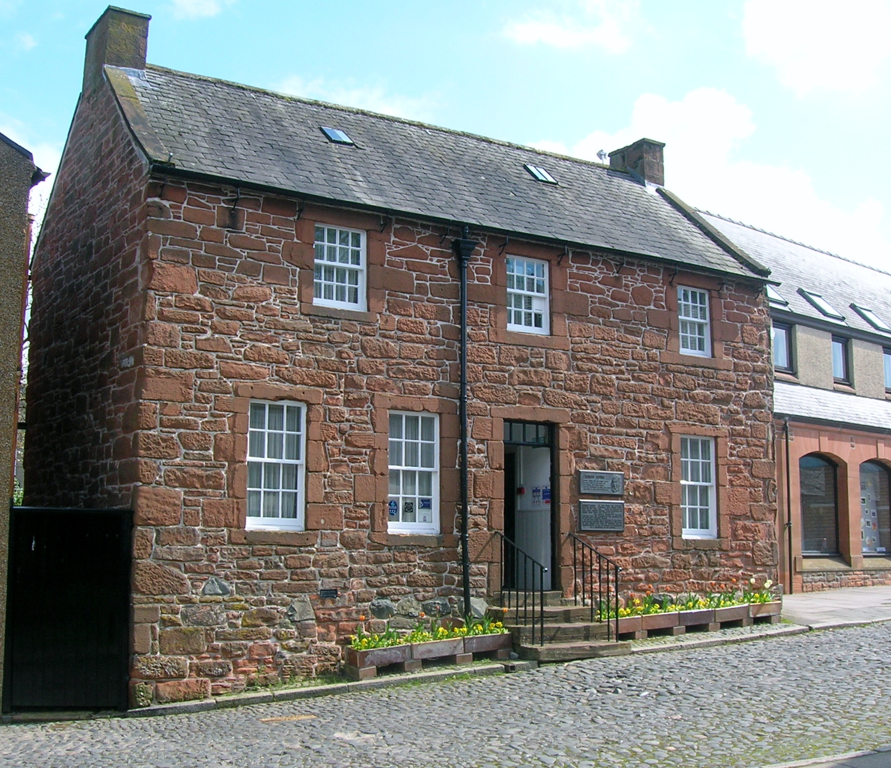 Robert Burns's last home in Dumfries, Scotland